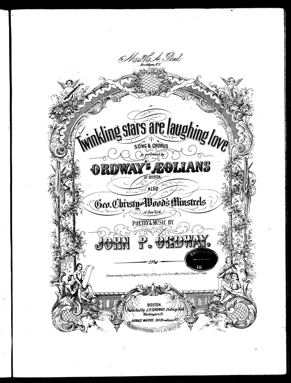 A Library of Congress scan of the cover of John P. Ordway's "Twinkling Stars are laughing love", published by Ordway in 1855